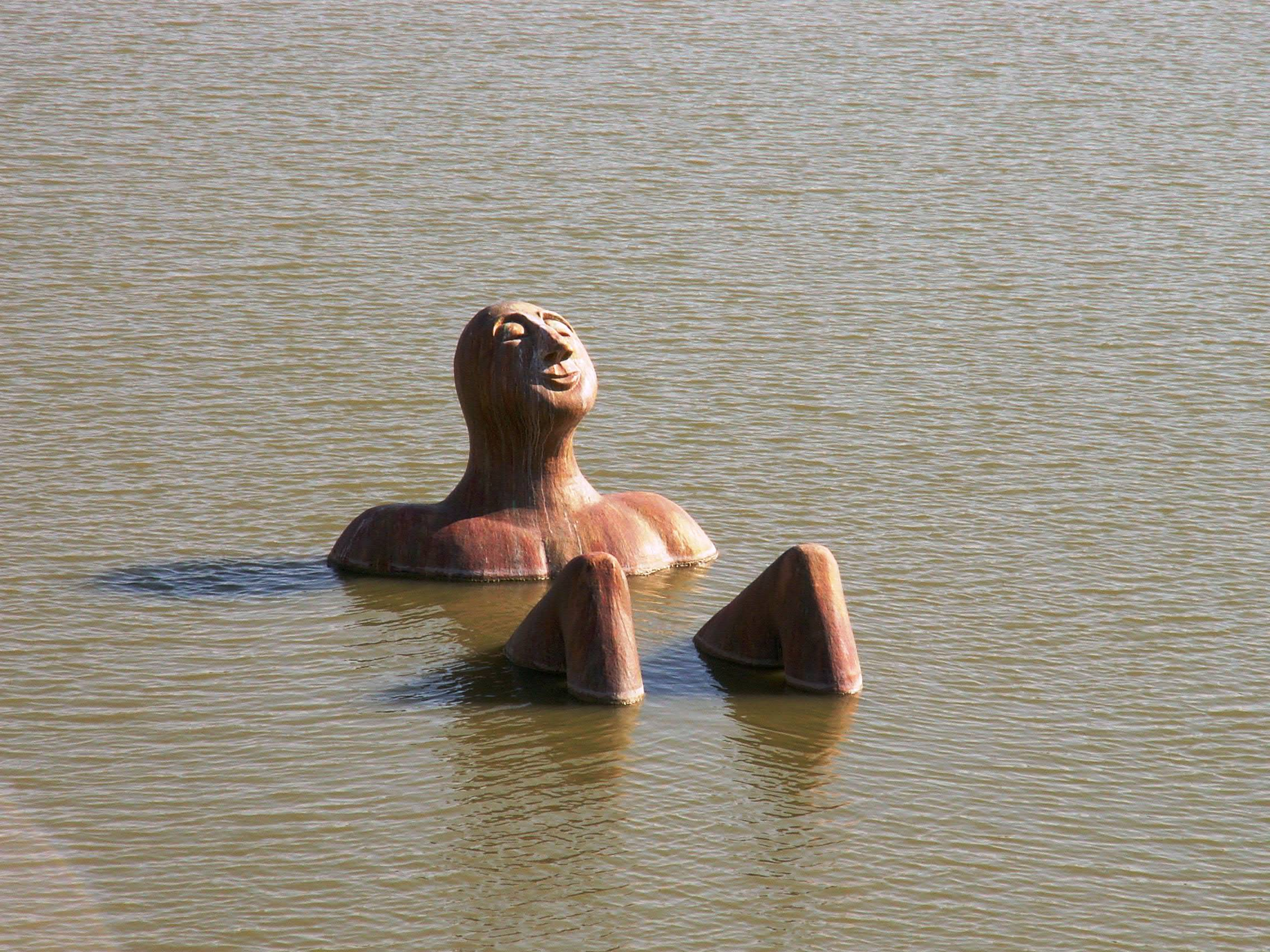 Hombre Río, in the Guadalquivir